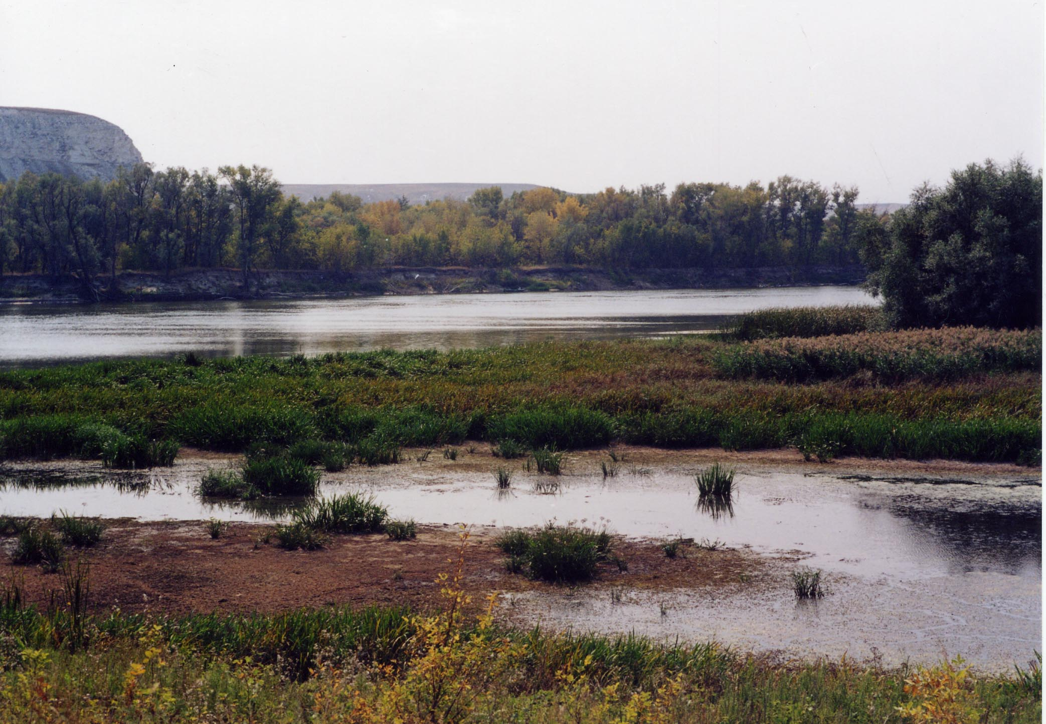 Don and his stretches. Natural Park "Don", Volgograd Region.